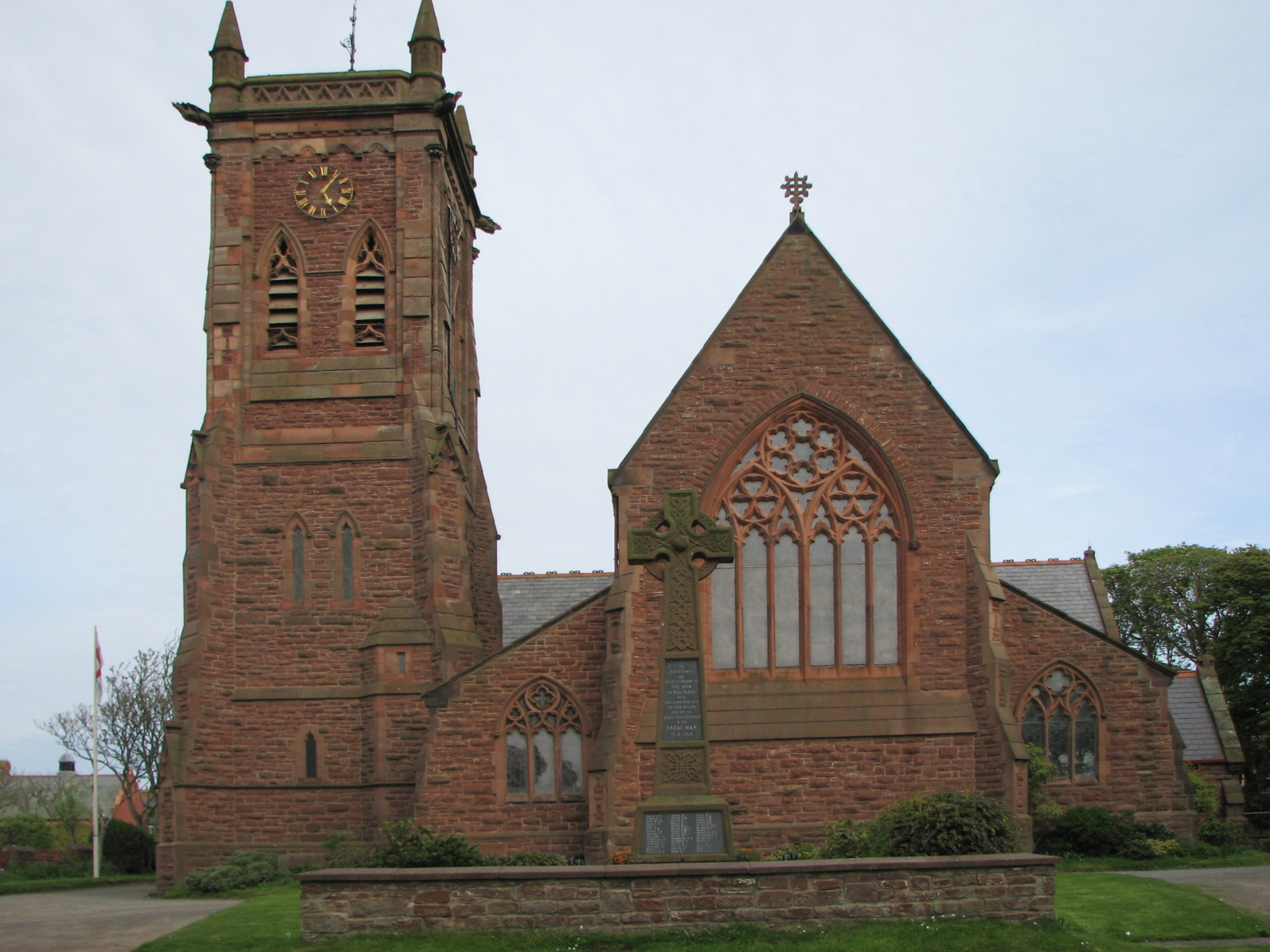 Peel Cathedral, Peel city, Isle of Man